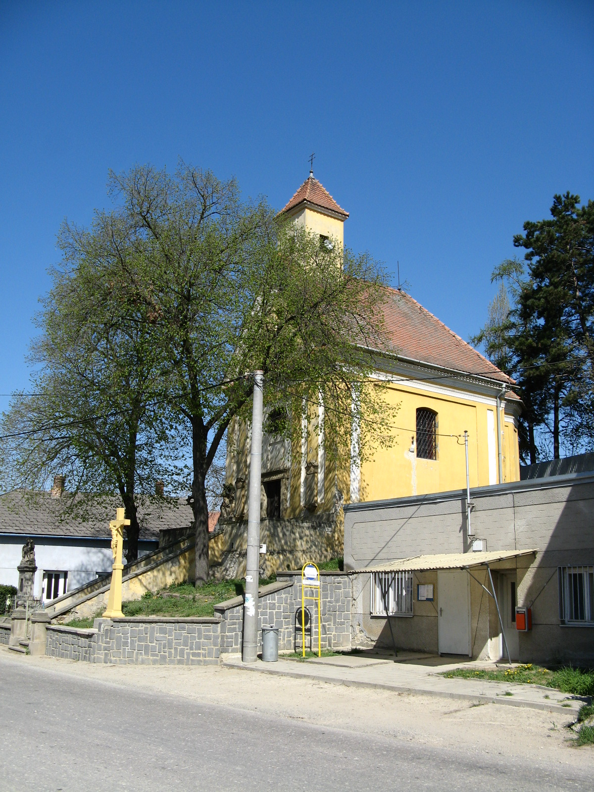 Hradčany-Kobeřice, Prostějov District, Czech Republic, part Kobeřice.